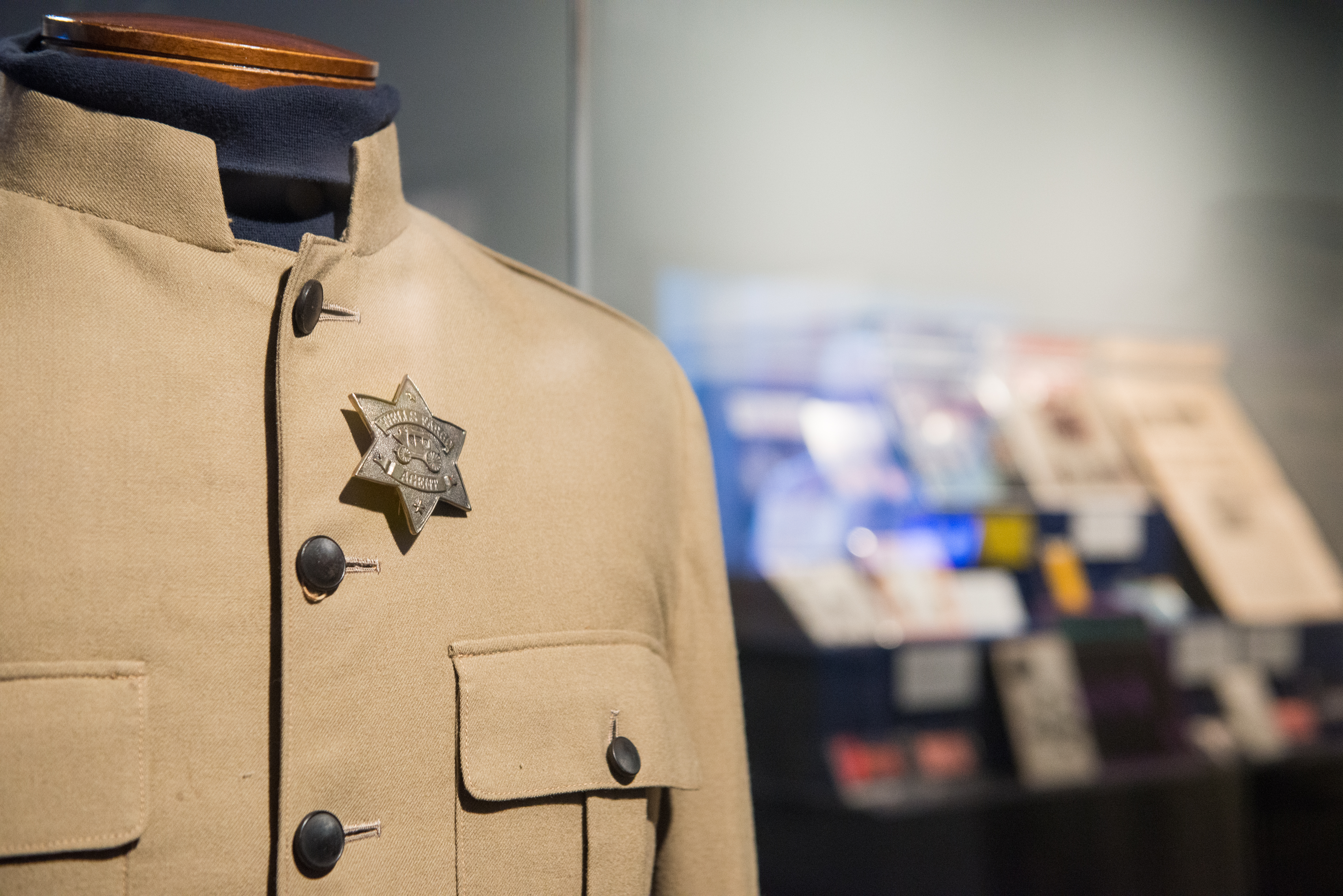 "Ladies and Gentlemen...The Beatles!", a traveling exhibit curated by the GRAMMY Museum® and Fab Four Exhibits, is open at the LBJ Presidential Library from June 13, 2015 through January 10, 2016. More than 400 pieces of memorabilia, records, rare photographs, tour artifacts, video, and instruments are on display, including John Lennon's missing Gibson J-160E guitar. The guitar is on display for two weeks only, from June 13 until June 29, 2015. Photo by Lauren Gerson. Flickr album "Exhibit: "Ladies and Gentlemen... the Beatles!"" by LBJ Foundation " "Ladies and Gentlemen…The Beatles!" is a traveling exhibit curated by the GRAMMY Museum® and Fab Four Exhibits that explores the impact The Beatles' arrival had on American pop culture, including fashion, art, advertising, media and music, from early 1964 through mid-1966 – when the British boy band was at its peak.On display will be more than 400 pieces of memorabilia, records, rare photographs, tour artifacts, video, and instruments from private collectors and the GRAMMY Museum, including the original Ludwig drum head Ringo played on "The Ed Sullivan Show." It even includes an oral history booth where visitors can leave their own impressions of the timeless group.Photos by Lauren Gerson. "